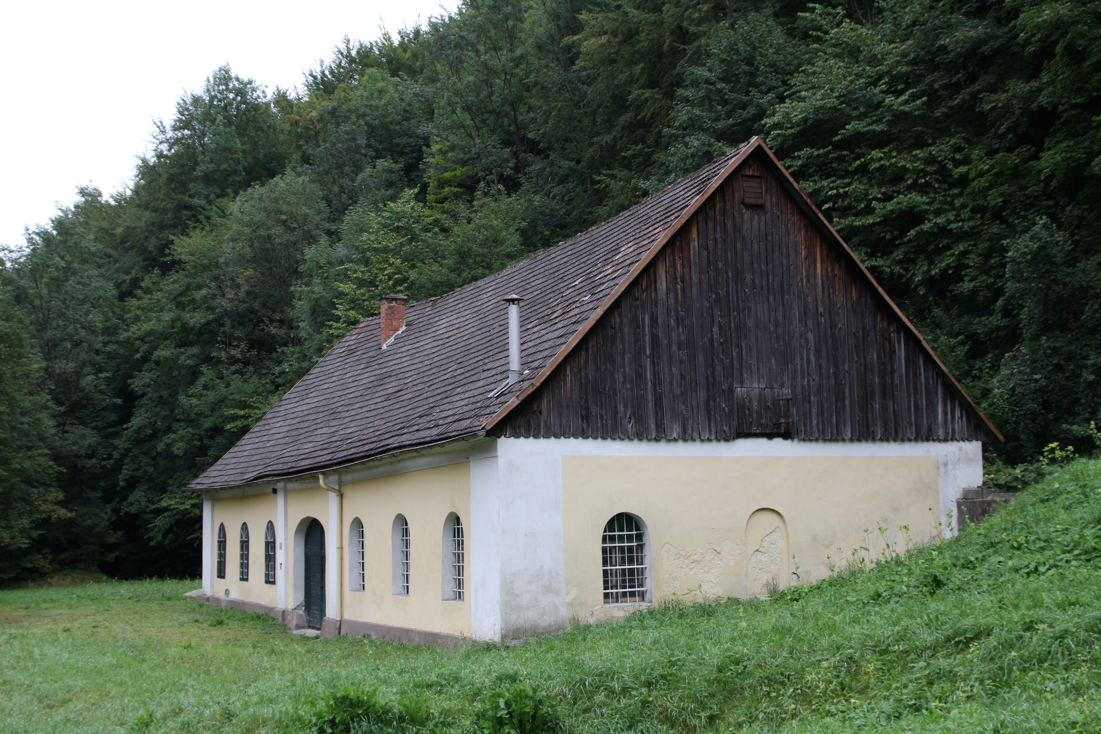 Old bark mill in Gaming